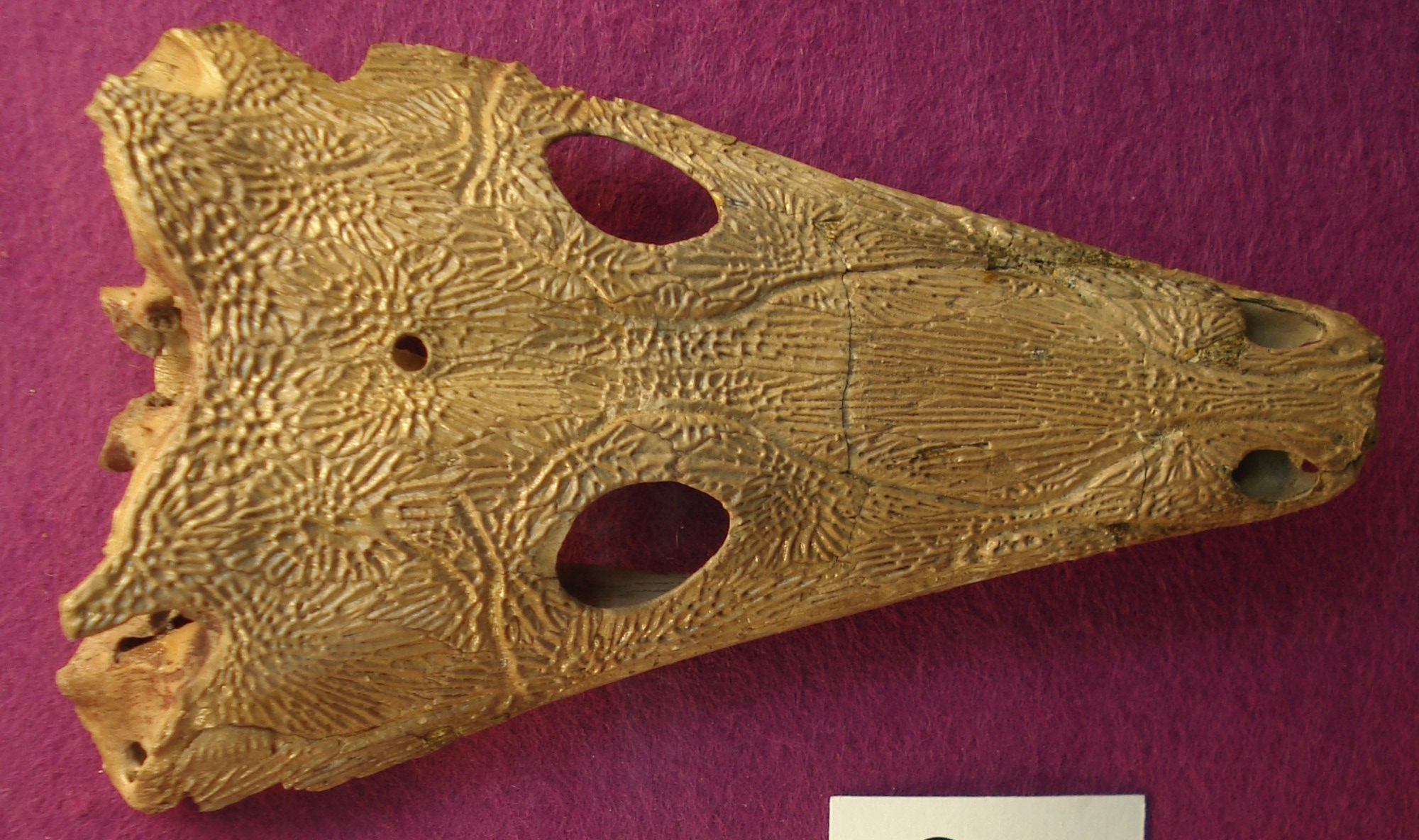 fossil of thoosuchus